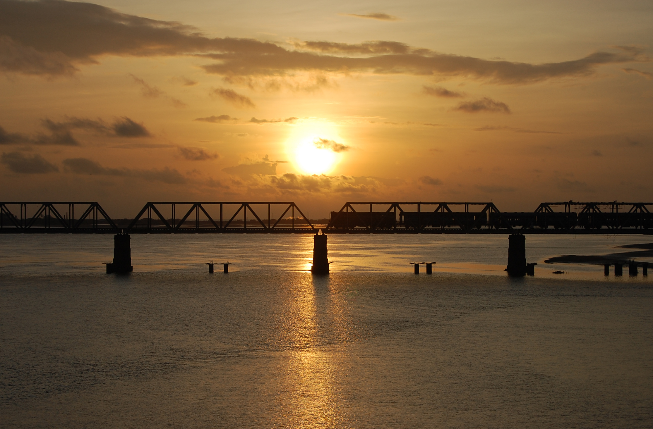 Sunset at Netravati River in Ullal, Mangalore, India.